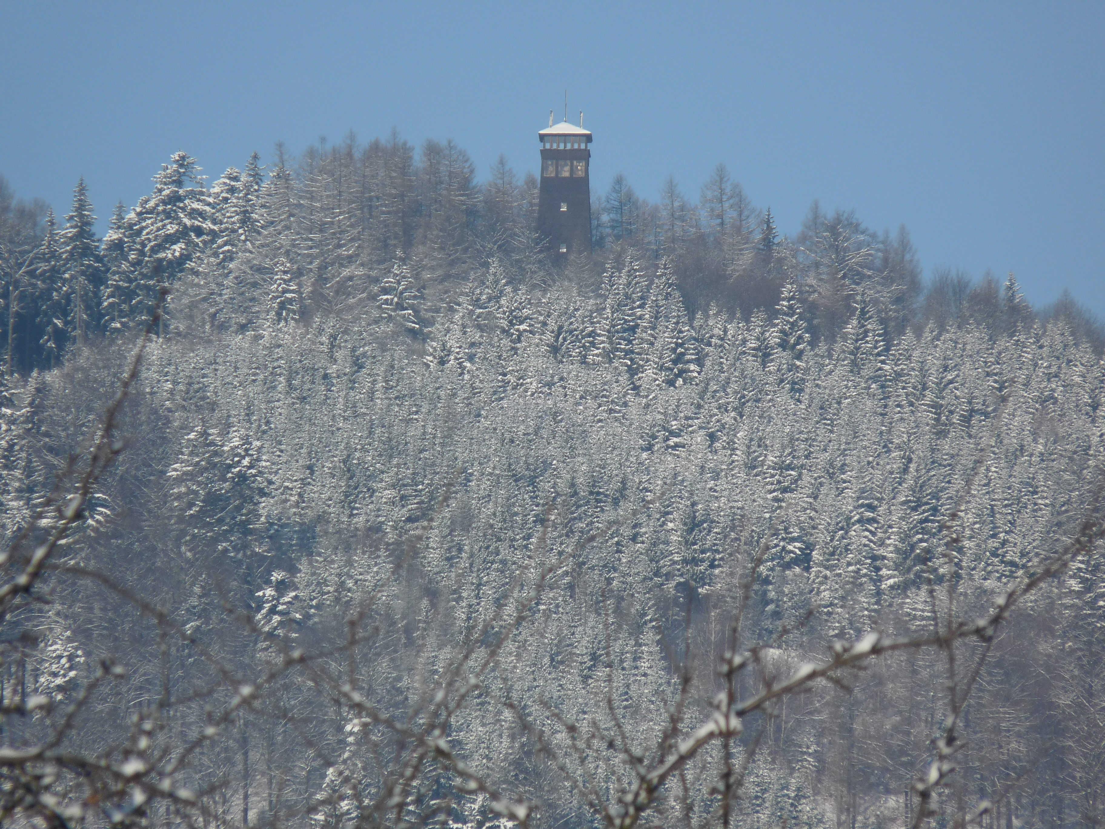 outlook-tower Haj, near Sumperk in Czech Republic